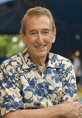 Bob McGrath, from the cast of Sesame Street, backstage at a Sesame Place concert.